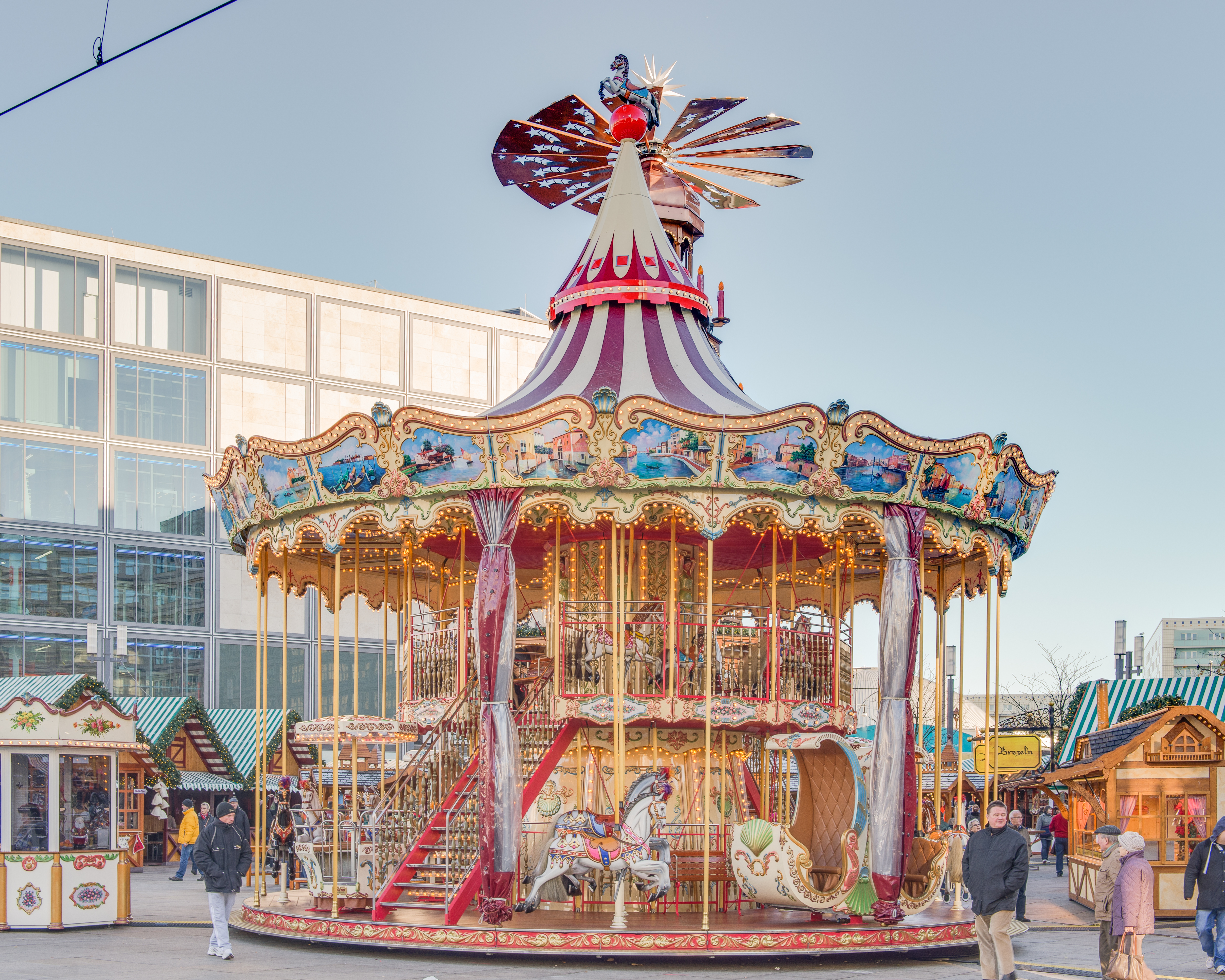 Christmas market at Alexanderplatz.